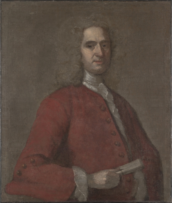 "Edward Winslow (1699-1753)," oil on canvas, by the Scottish-born artist John Smibert. Courtesy of the Yale University Art Gallery, Yale University, New Haven, Conn. Mabel Brady Garvan Collection.